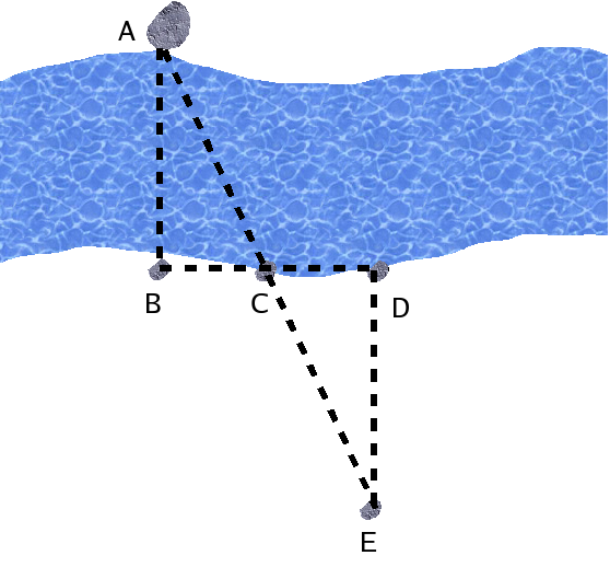 Diagram showing how to estimate the width of a stream. Choose a marker on the opposite side of the stream (A). Place a marker (B) directly across the stream from marker A, and then place two additional markers (C & D) at equal intervals, such that the line from B-C is the same length as the line from C-D. Walk a line 90° from the line formed by B-D until markers A and C line up. Place a final marker (E) at this point. The distance across the stream (A-B) will be equal to the distance between markers D-E. This is essentially the procedure described by the Roman agrimensor Marcus Junius NIPSUS